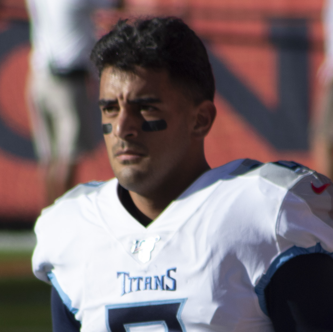 Marcus Mariota with the Tennessee Titans on October 13, 2019 against the Denver Broncos